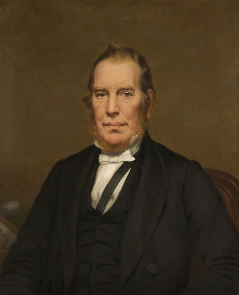 Photograph of a portrait of Richard Roberts, engineer